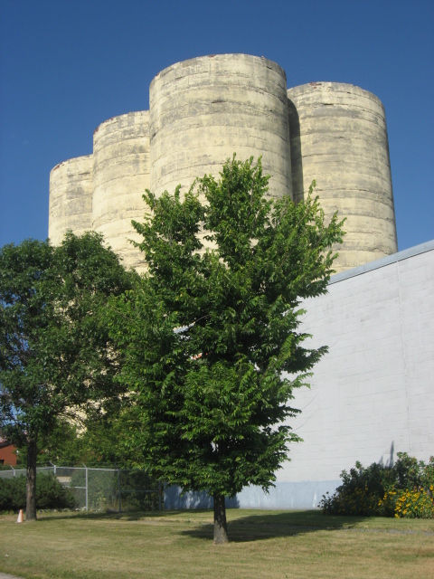 The Flour Mill - an iconic monument of Sudbury